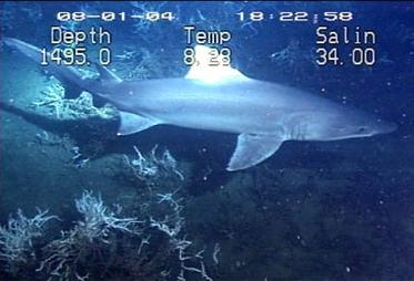 Smalltooth sand tiger (Odontaspis ferox) in the Gulf of Mexico